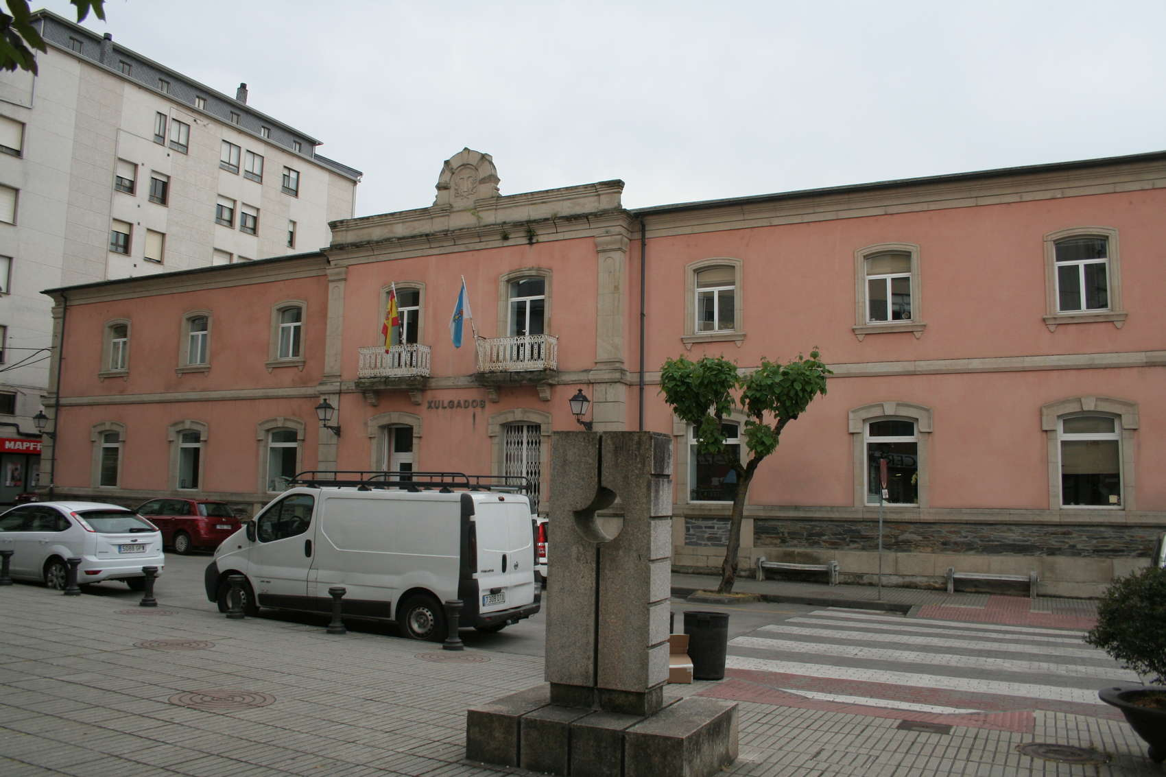 Courthouse in Monforte de Lemos (Spain).